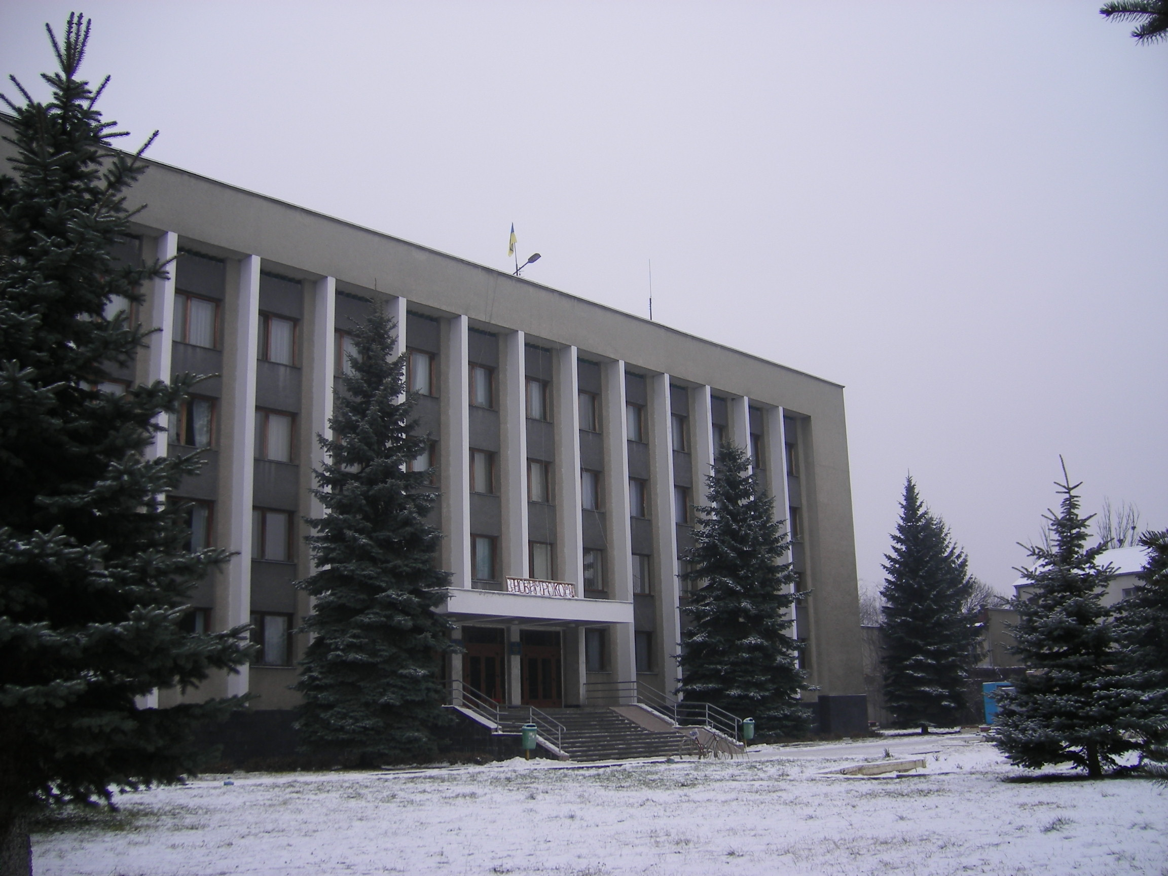 Tyachiv Raion Administration Building